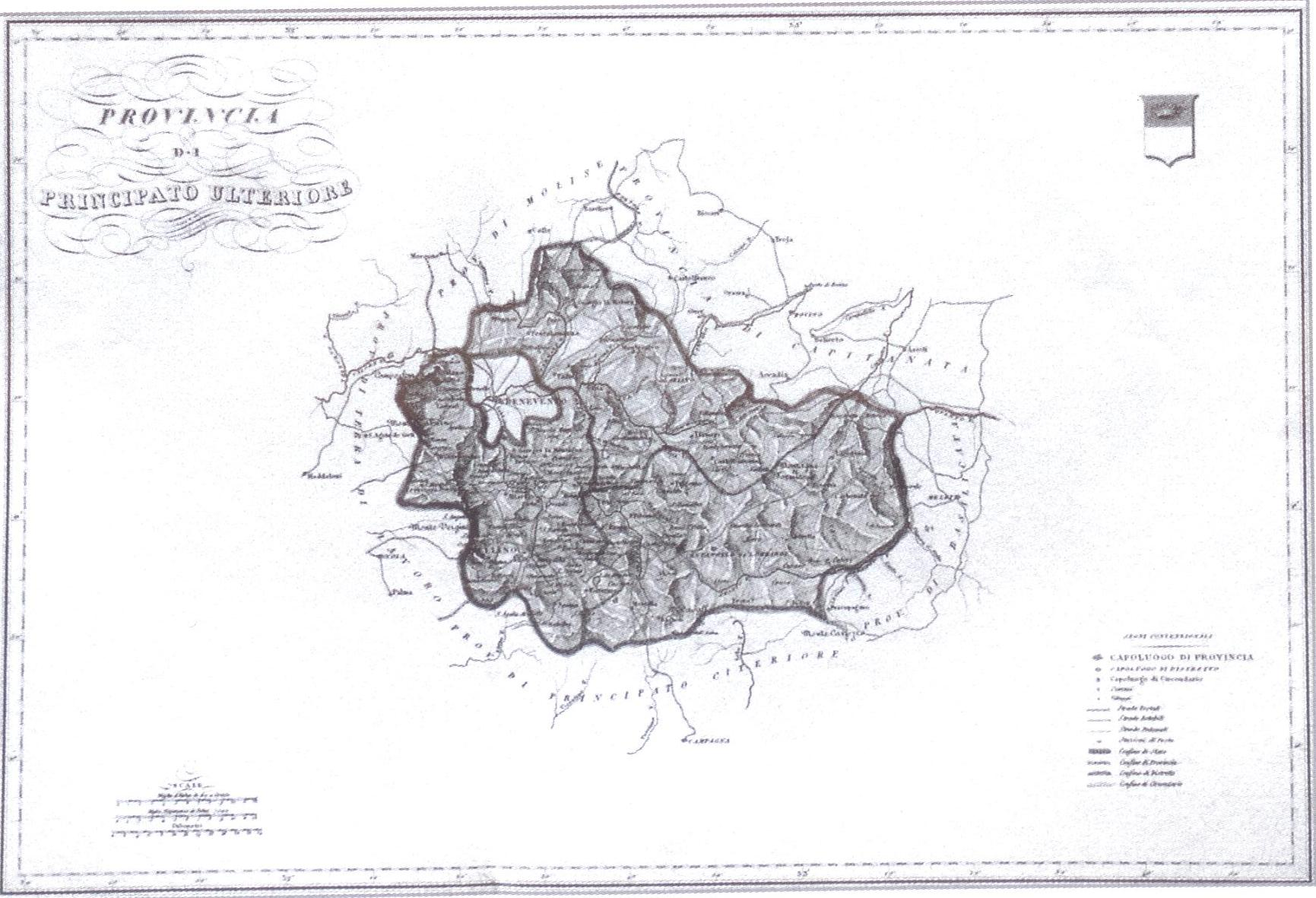 Attilio Zuccagni-Orlandini, "Provincia di Principato Ulteriore" from "Corografia fisica, storica e statistica d'Italia e delle sue isole", published in Milan in XIX century.